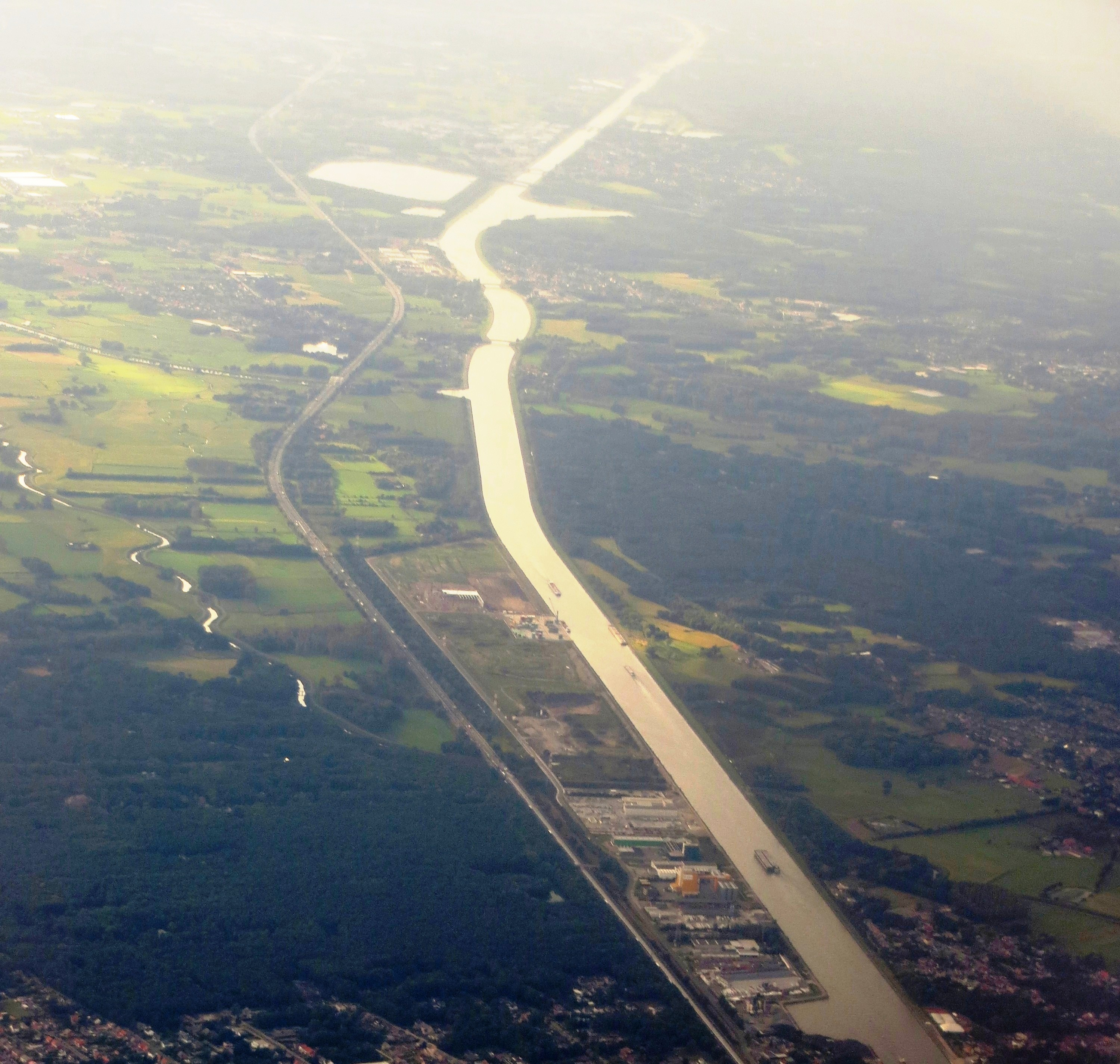 Aerial view from the east towards west. from the northern part of Belgium (Leuven-Hageland region). This is Grobbendonk municipality, by the Albertkanaal, in region Antwerpen.